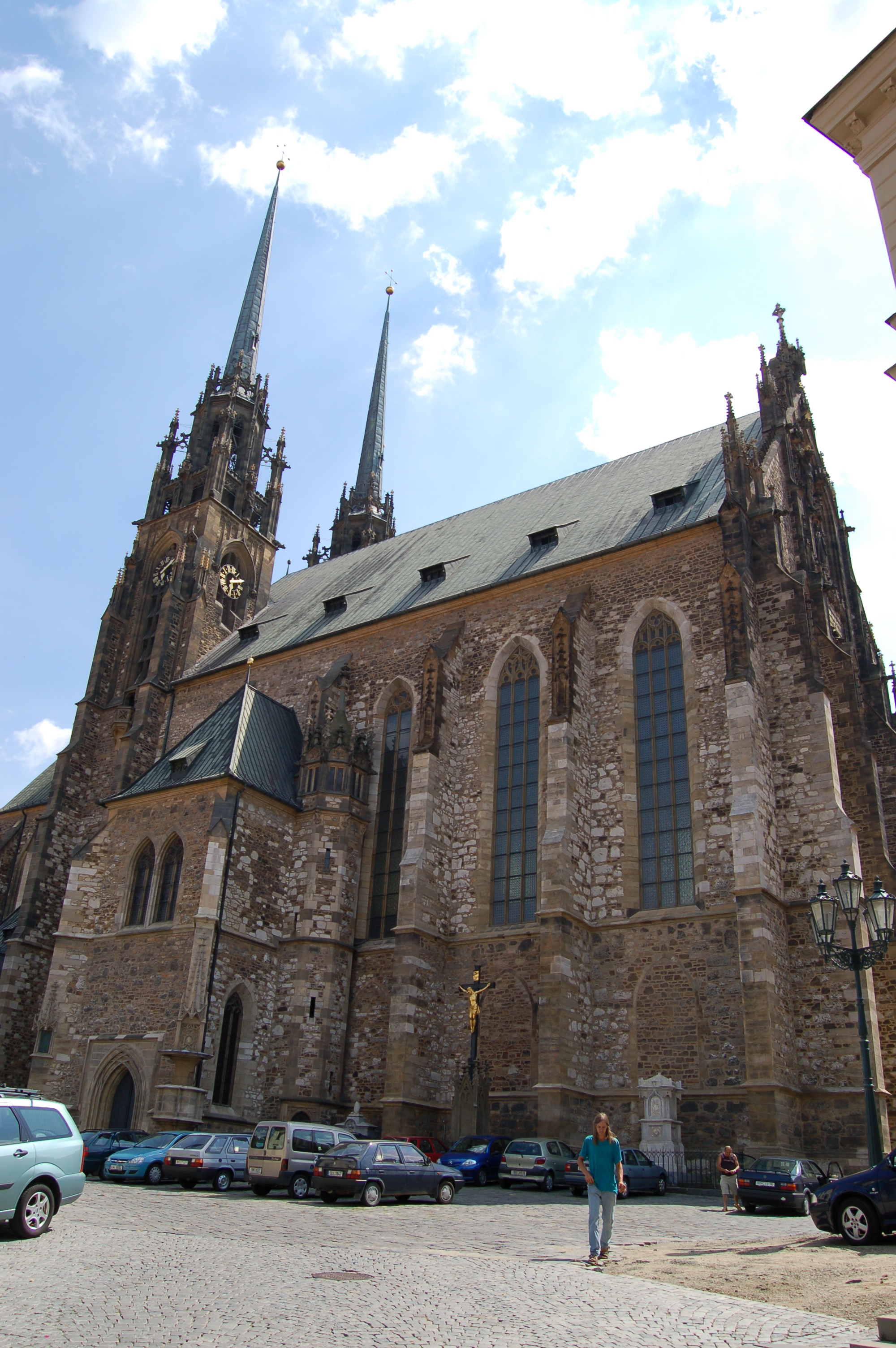 Cathedral of Saint Peter and Paul, Petrov, Brno.